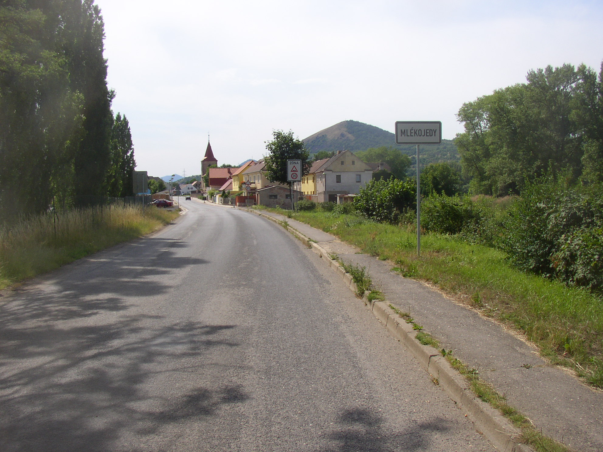 Mlékojedy, Litoměřice District, Czech Republic. A view of the village from the east, from Litoměřice road. In the background on the opposite bank of the Elbe the hill of Radobýl (399 m).